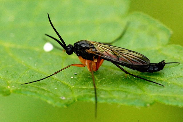 Platyura marginata from Commanster, Belgian High Ardennes .